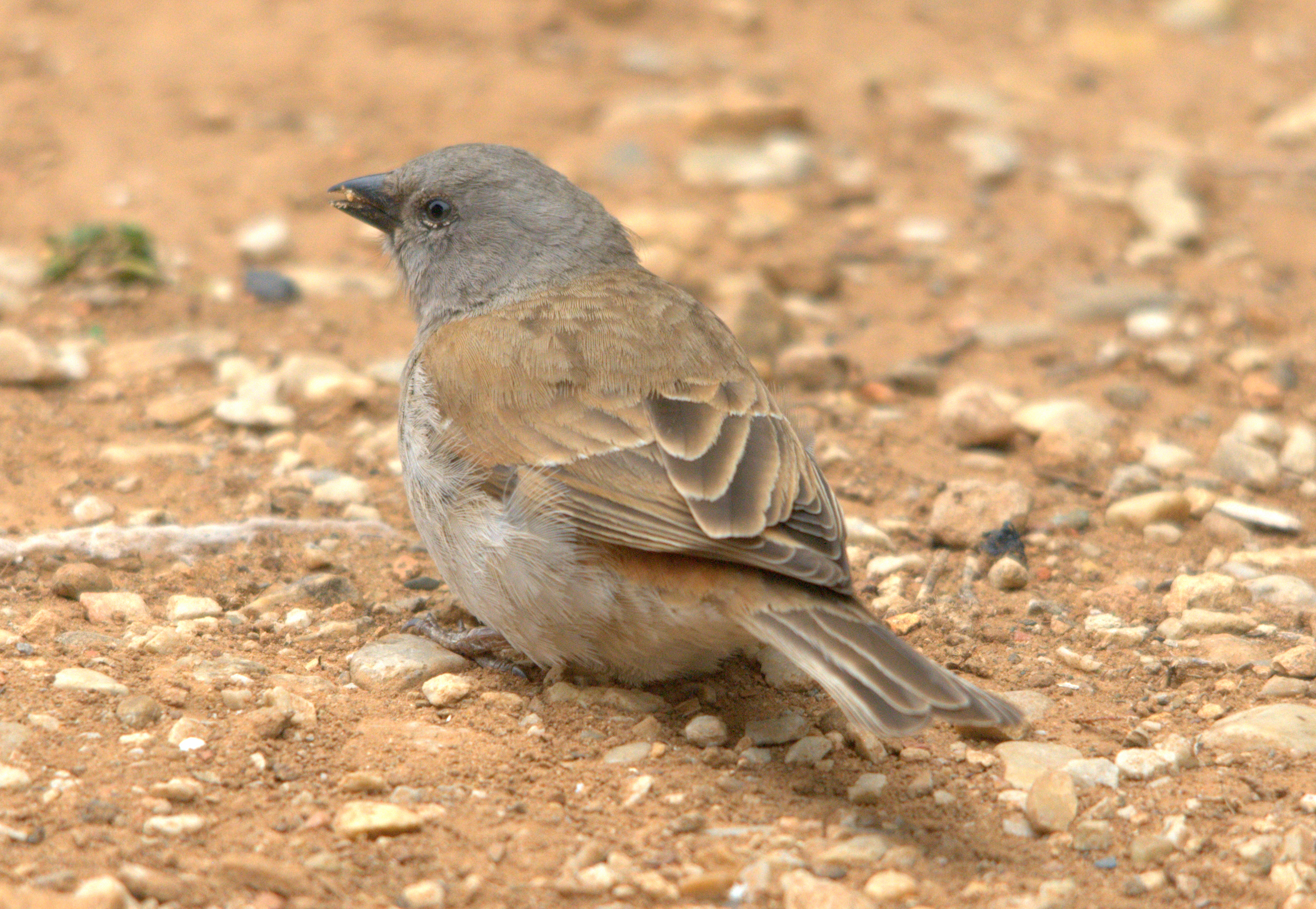 A Southern Grey-headed Sparrow (Passer diffusus) in Addo Elephant National Park, South Africa